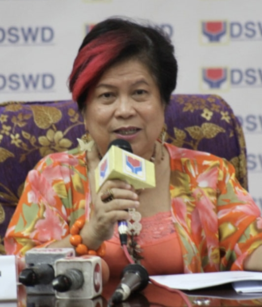 Portrait of Dinky Soliman